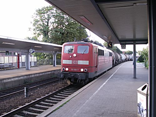 hbf rheydt , photographed by me , michael bienick